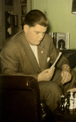 Bill Lombardy.